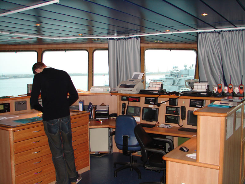 The chart table and radio table on the Argonaute.